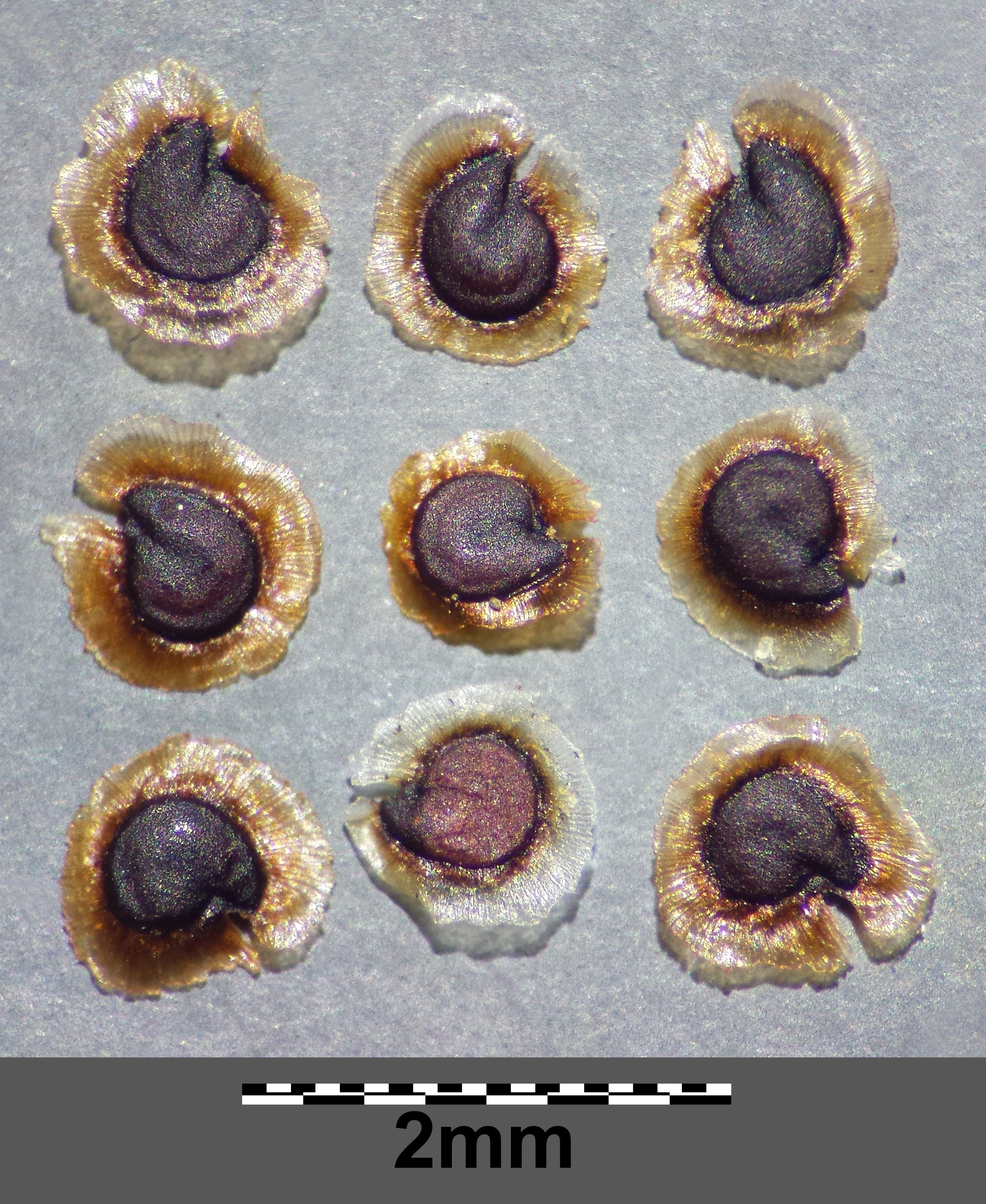 Seeds Taxonym: Spergularia maritima ss Fischer et al. EfÖLS 2008 ISBN 978-3-85474-187-9 Location: next to Zwingendorfer, district Mistelbach, Lower Austria - ca. 185 m a.s.l. Habitat: fallow land